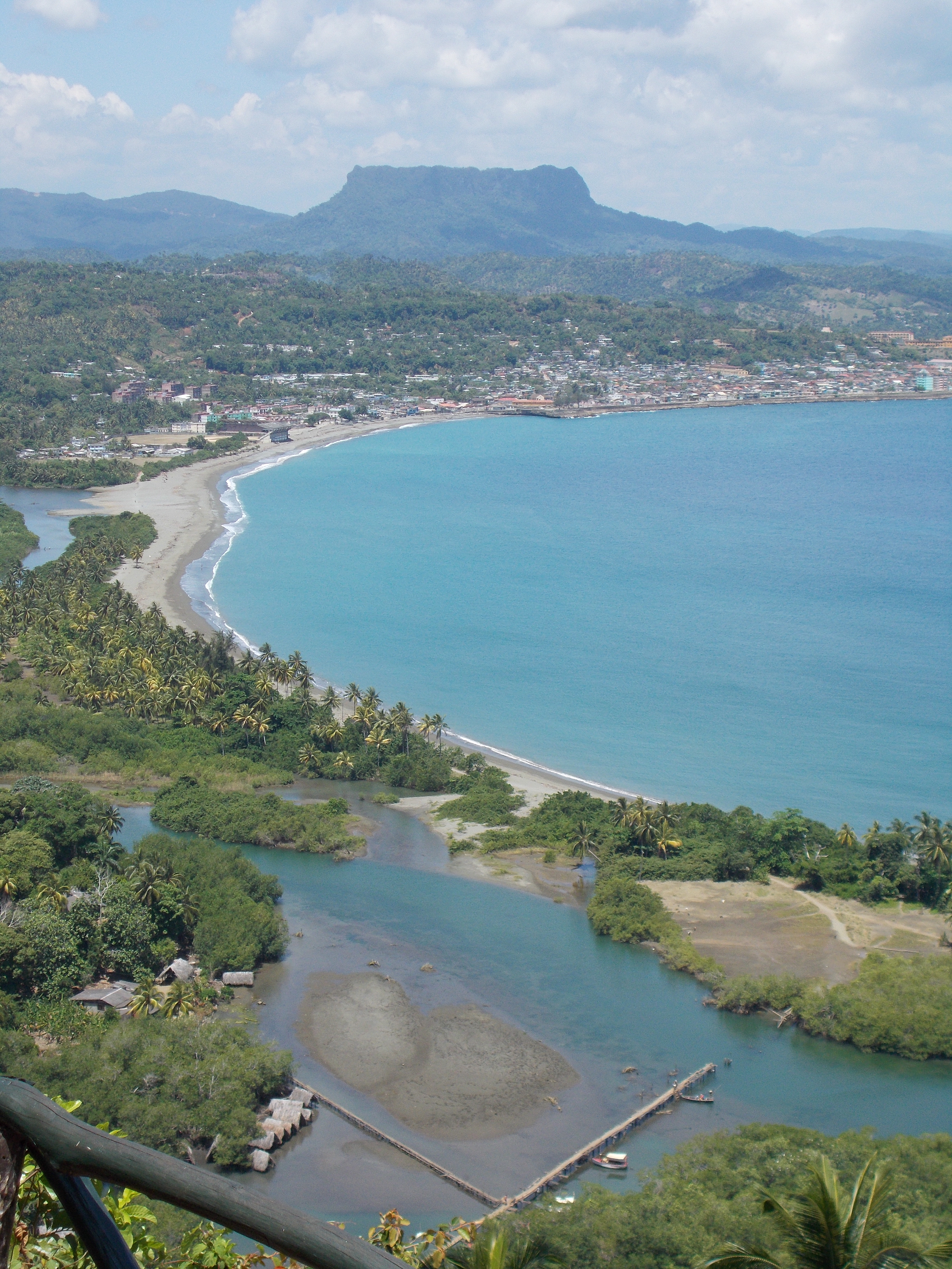 A picture of the town of Baracoa, Cuba, with the anvil-shaped mountain "El Yunque" in the background. The river in the foreground is the "Miel" (honey) river. The beach is named "Playa Boca del Miel"